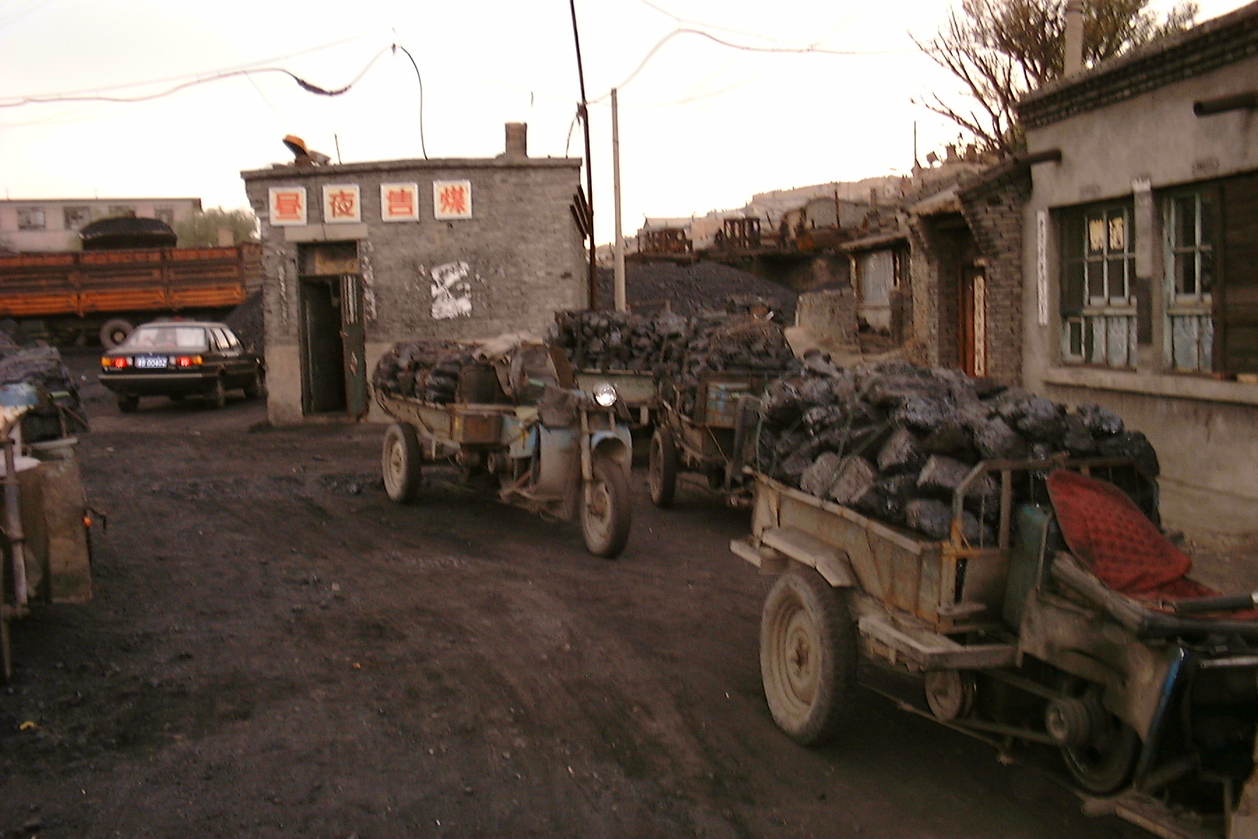 Using tricycles at the Lao Ye Temple Mine, Datong, Shanxi, China